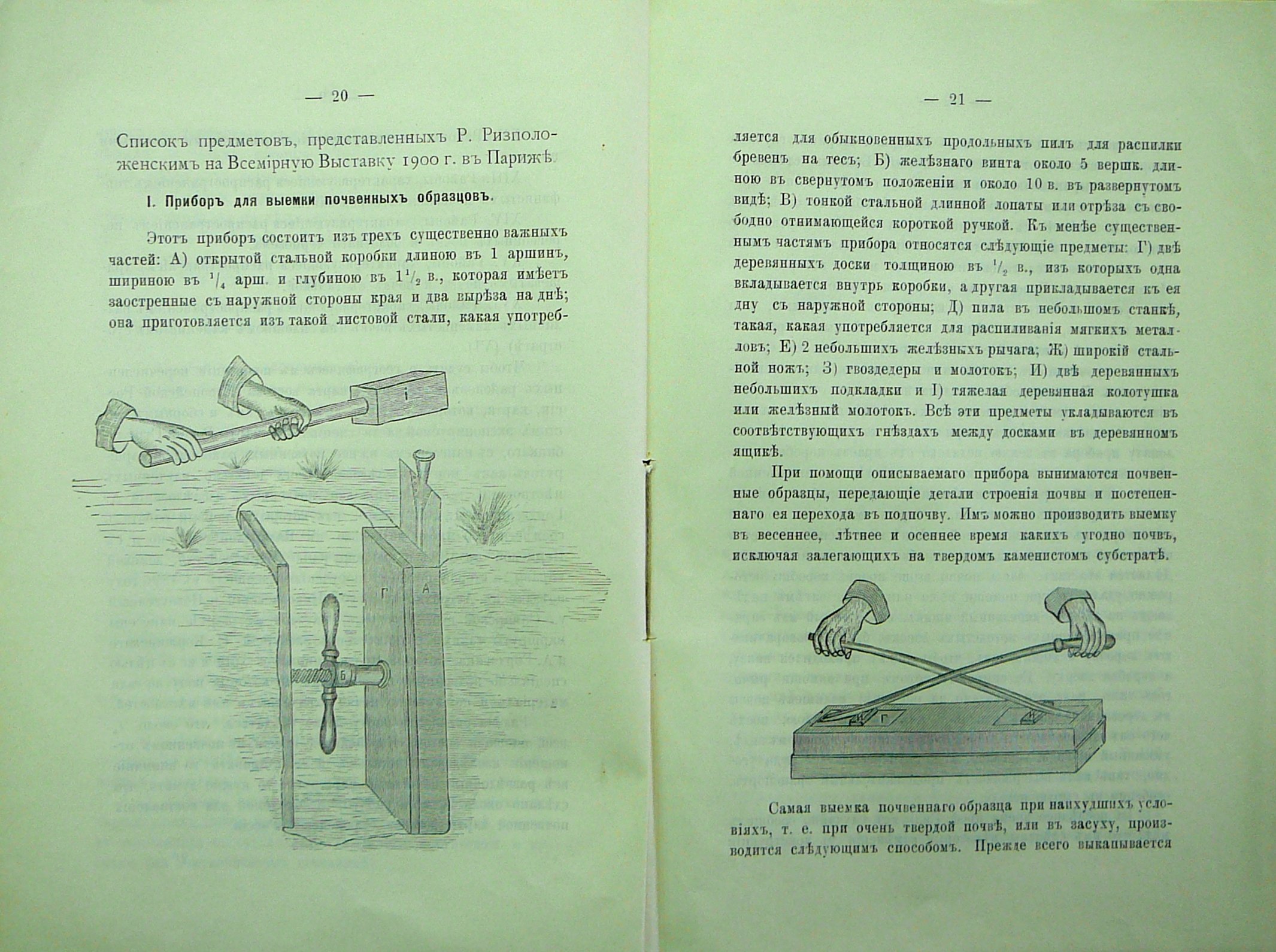 Description of the device for the extraction of soil samples constructed R.V.Rizpolozhenskim (pages from the book "The explanatory note to the exhibits presented R.Rizpolozhenskim at the World Exhibition in Paris in 1900")